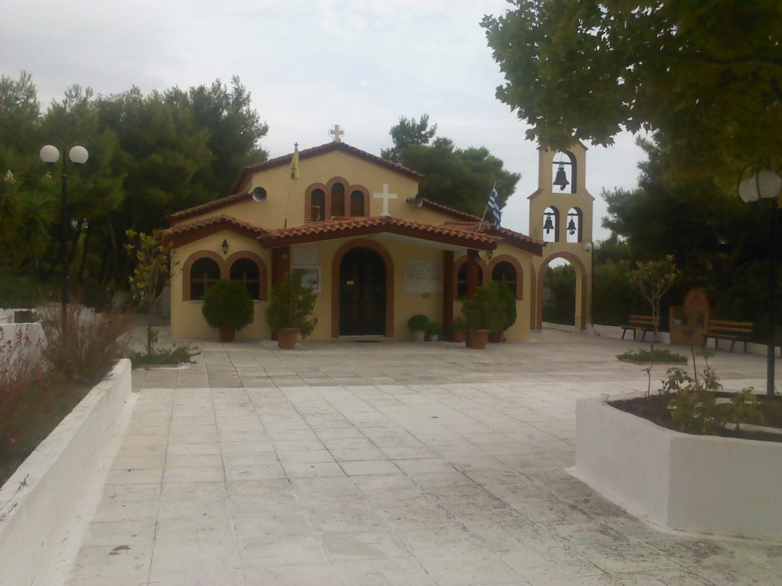 Churche Koimisis Theotokou Rafina